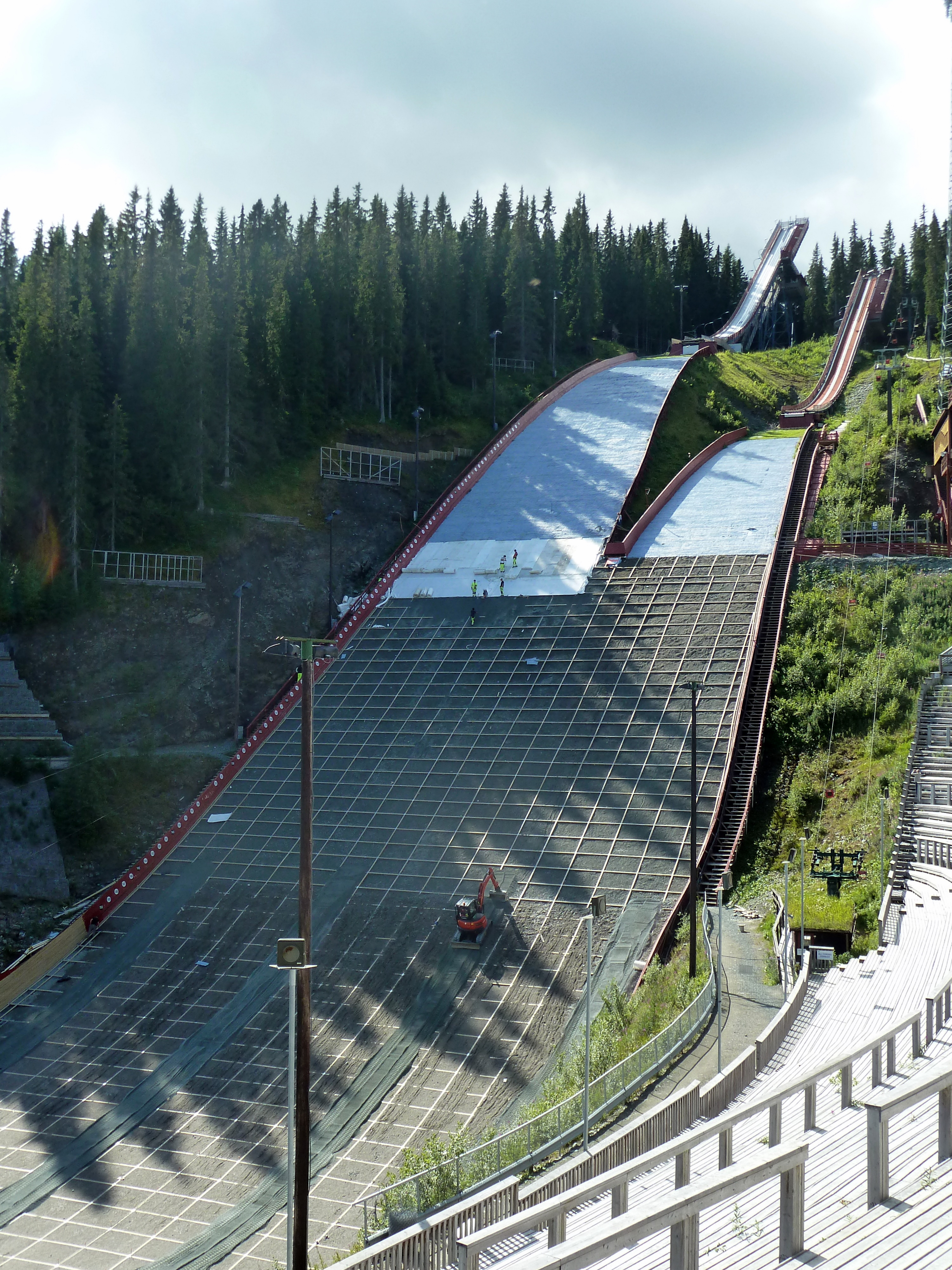 The ski jumping hills in Trondheim being repaired